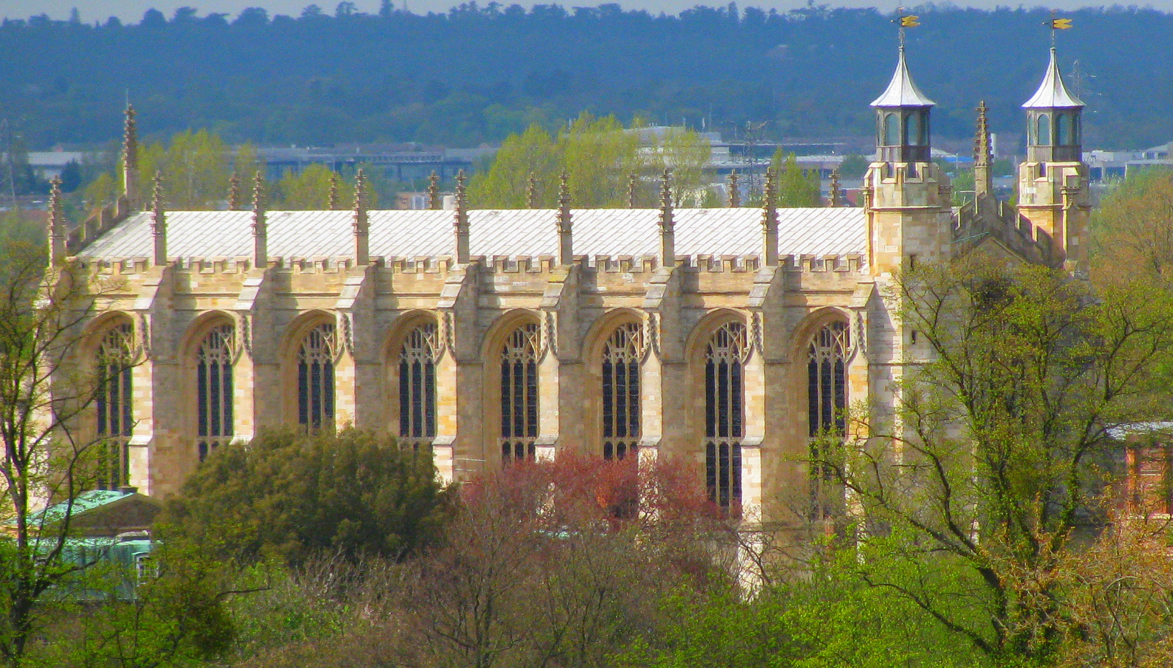 Eton College Chapel